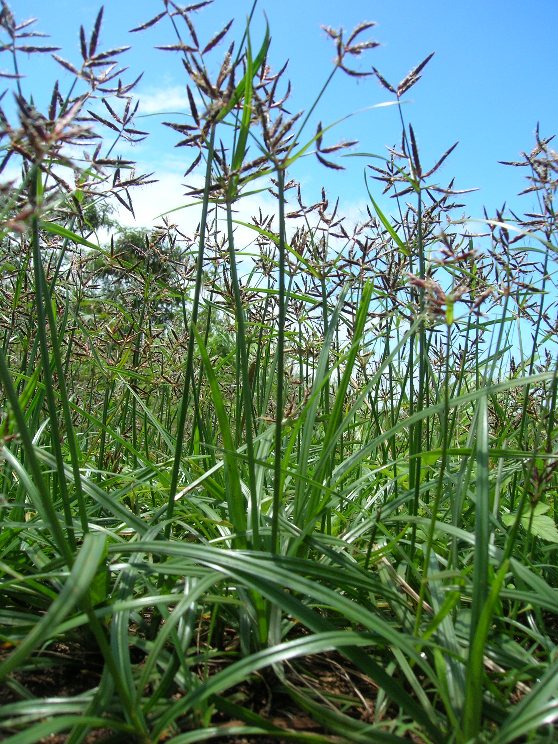 Cyperus rotundus (habit). Location: Maui, Paia